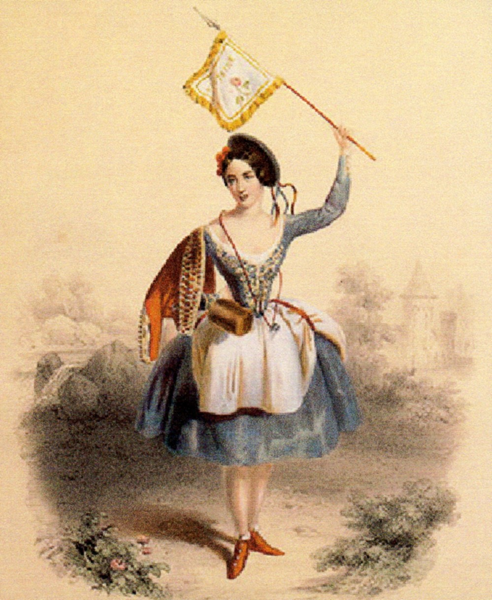 Lithograph by unknown of Fanny Cerrito in La Vivandiere. London. 1846.